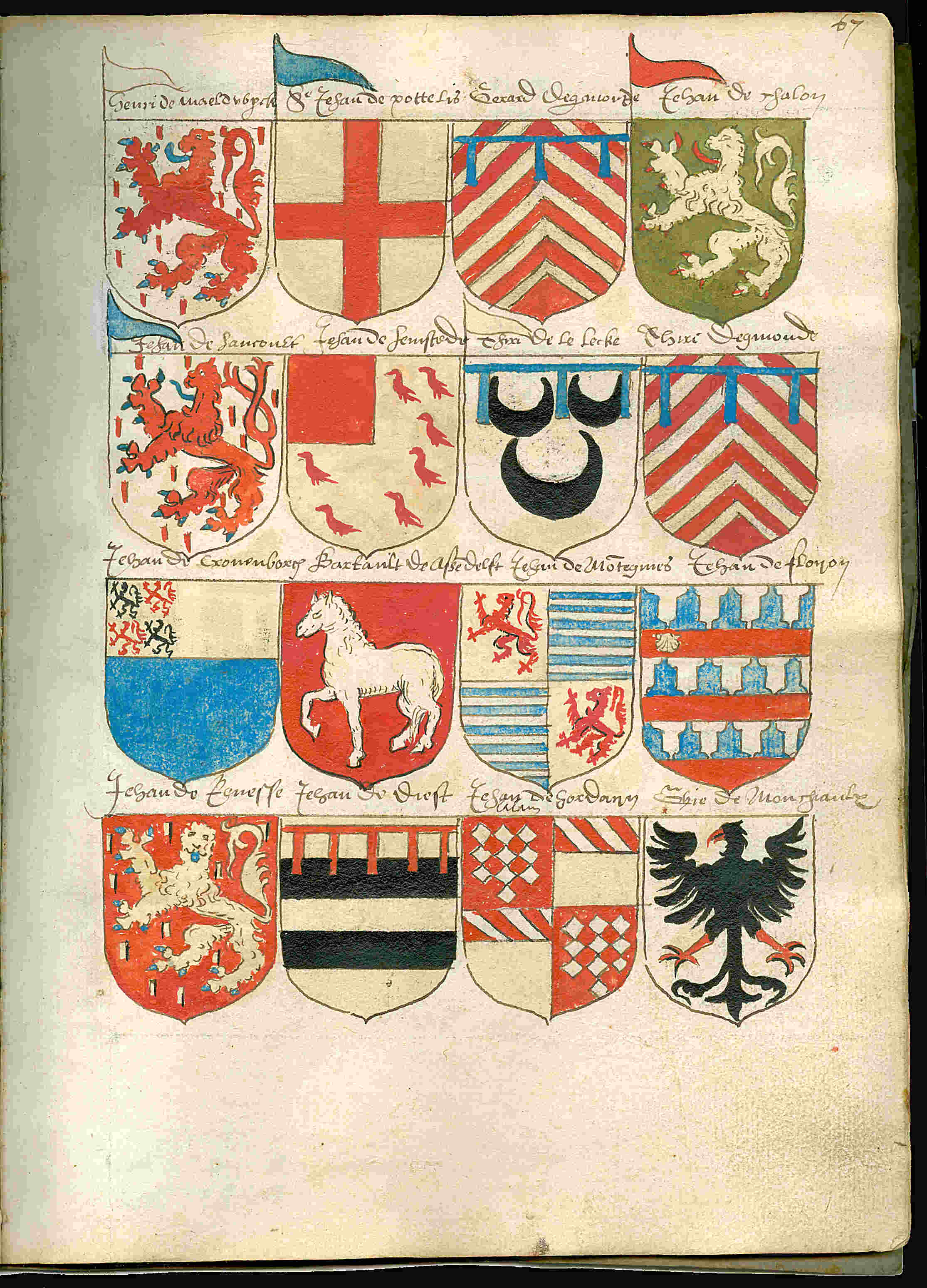 Page 67 from a copy of the Beyeren armorial / Wapenboek Beyeren from ca. 1600. The original Beyeren armorial from 1405 can be viewed at the website of the KB